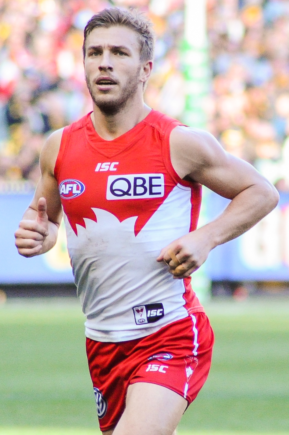 Kieren Jack during the AFL round thirteen match between Richmond and Sydney on 17 June 2017 at the Melbourne Cricket Ground in Melbourne, Victoria.